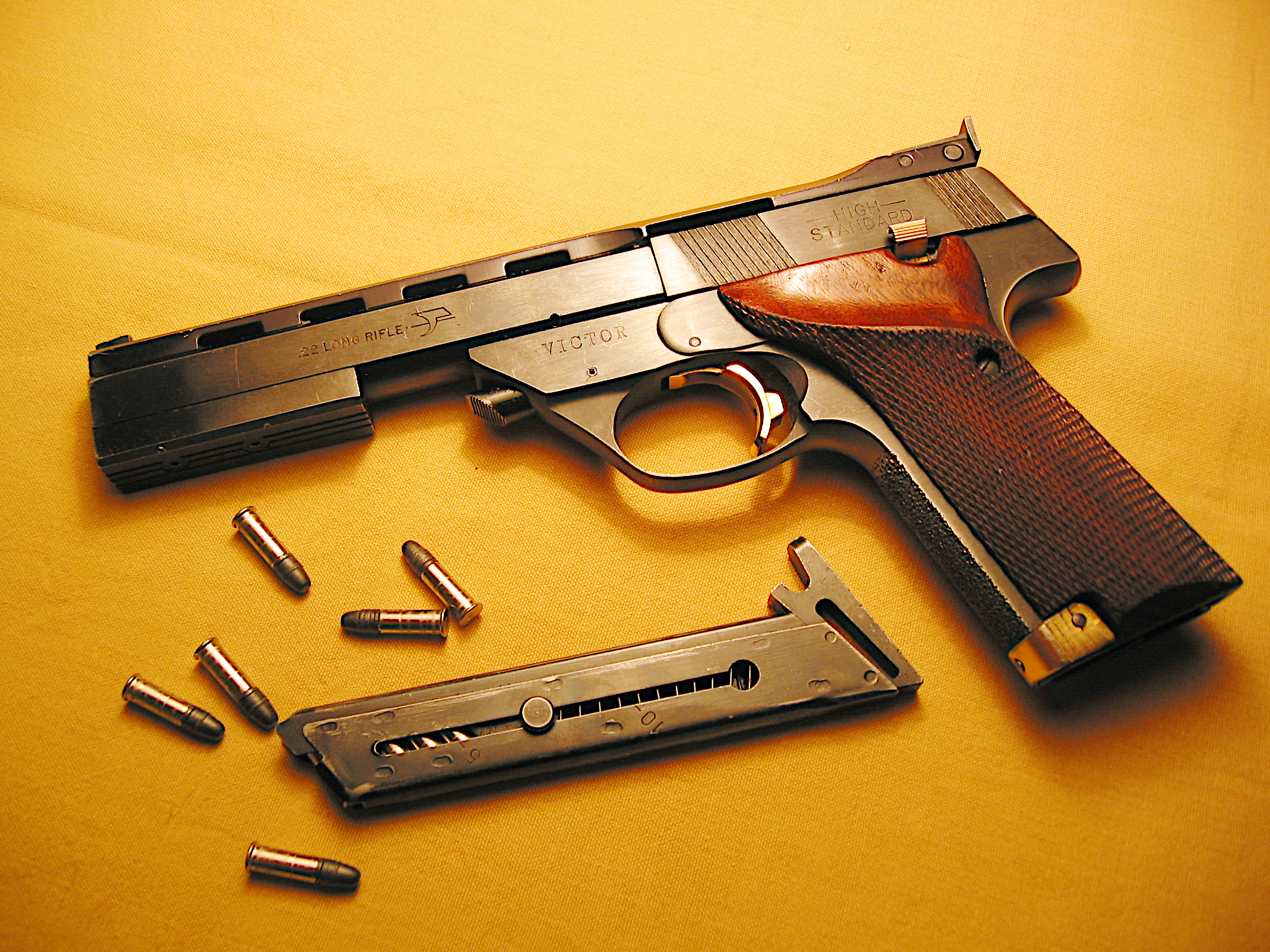 High standard 004